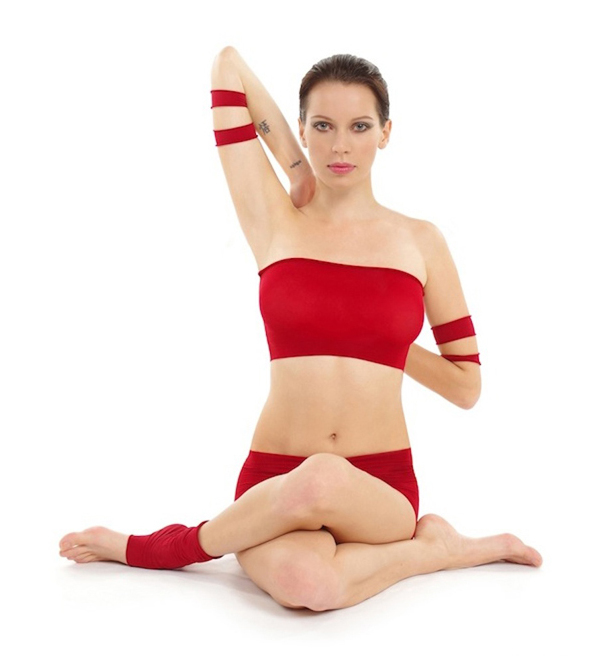 Gomukhasana by Nina Mel, Yoga Teacher